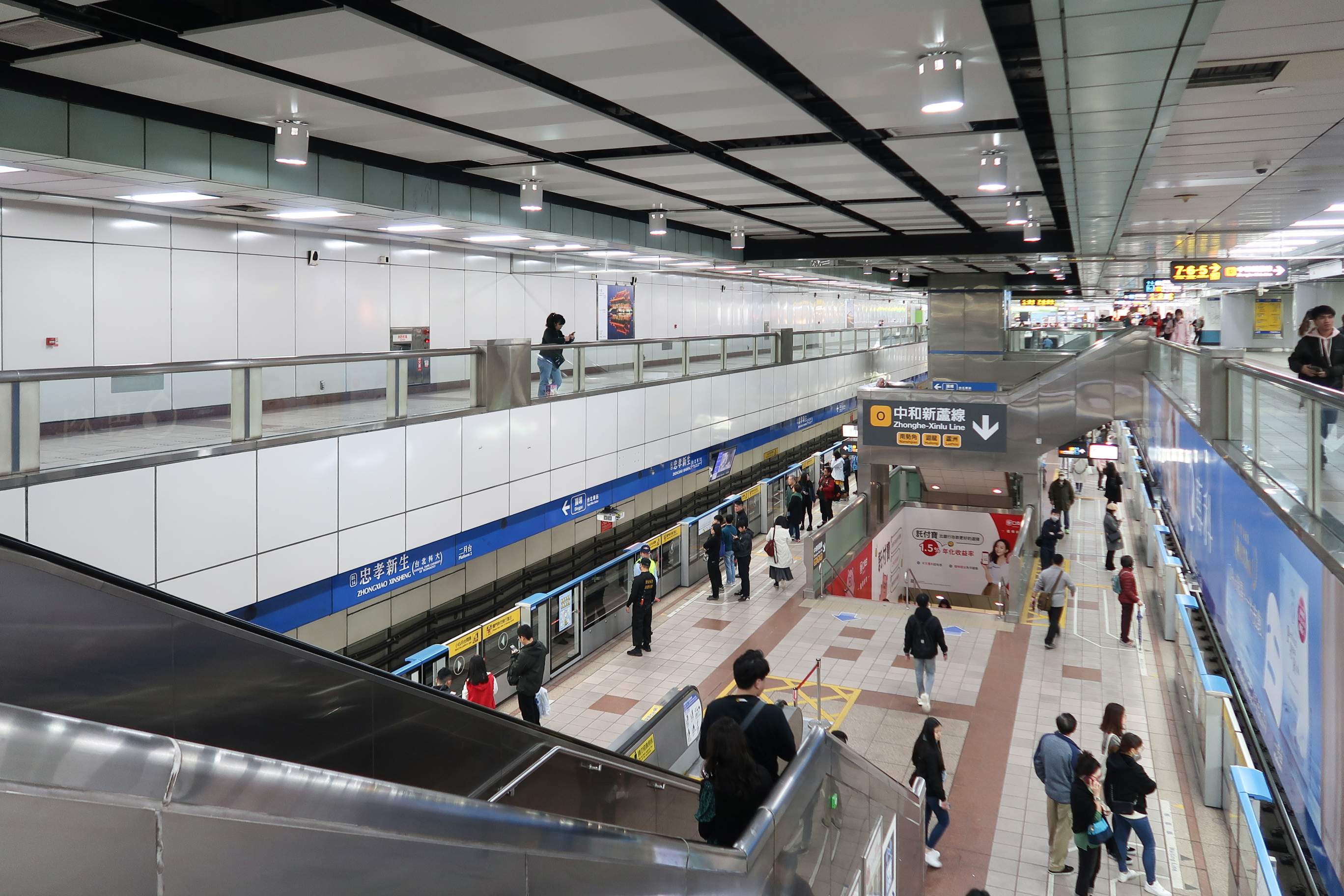 Platforms at Zhongxiao Xinsheng Station